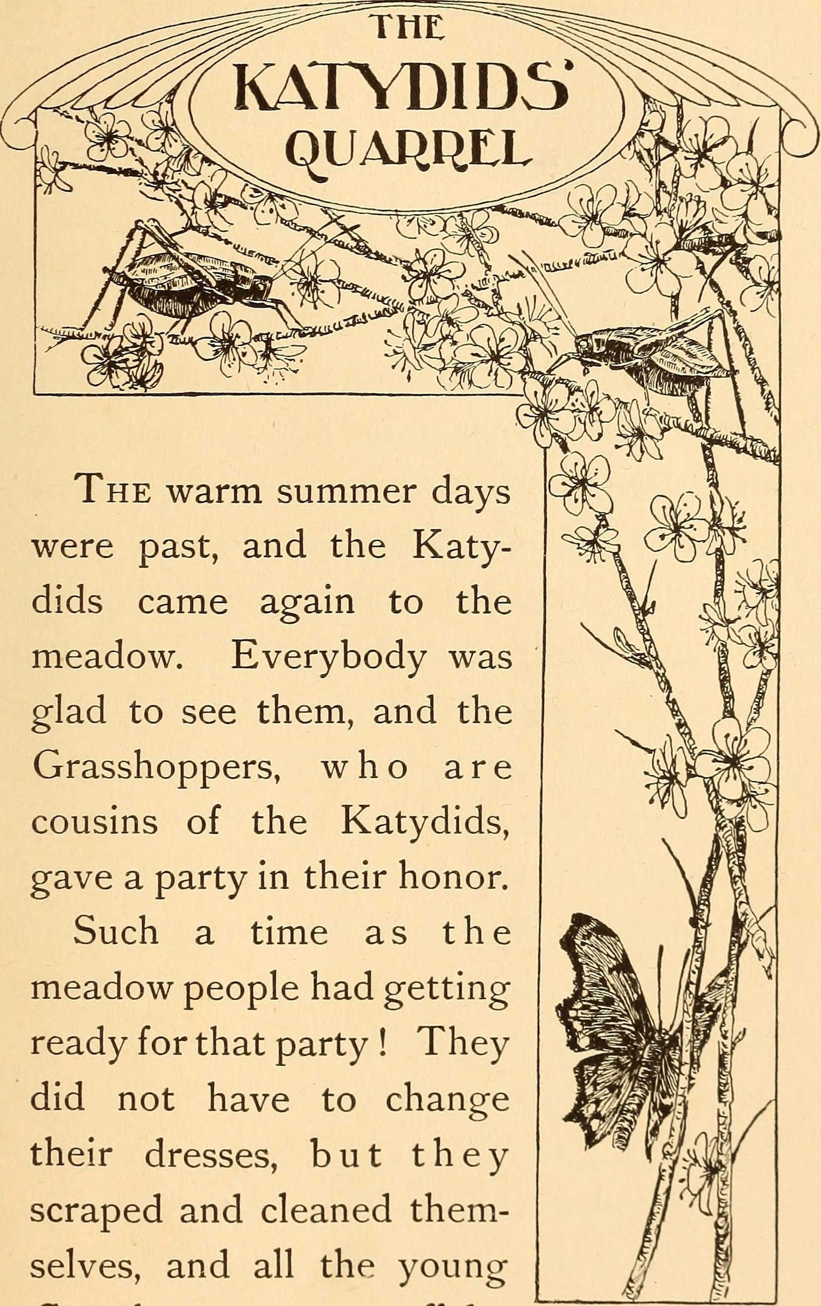 Title: Among the meadow people Year: 1901 (1900s) Authors: Pierson, Clara Dillingham. [from old catalog] Subjects: Publisher: New York, E. P. Dutton & company Text Appearing Before Image: ' Text Appearing After Image: The warm summer days were past, and the Katy- dids came again to the meadow. Everybody was glad to see them, and the Grasshoppers, who are cousins of the Katydids, gave a party in their honor. Such a time as the meadow people had getting ready for that party ! They did not have to change their dresses, but they scraped and cleaned them- selves, and all the young Grasshoppers went off by 183